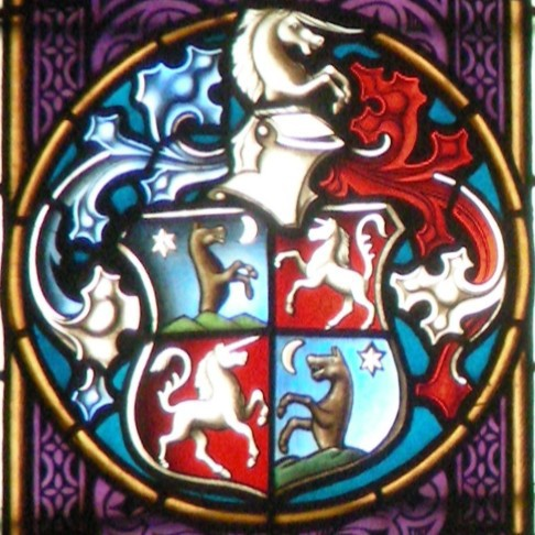 Coat of arms of István Zápolya (? – 25 December 1499, Pápa). Stained-glass window, Zápoľský/Zápolya family chapel, St. Martin's Cathedral, Spišská Kapitula.